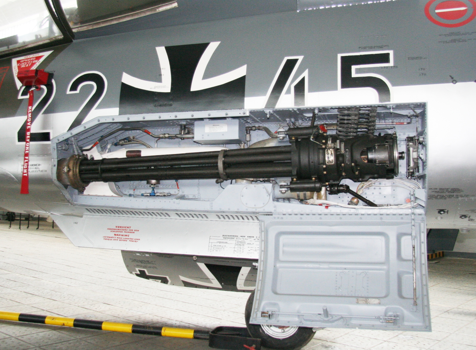 Opened weapons bay with a M61 gun installation of a Luftwaffe Lockheed F-104G in the museum of aviation and technology in Wernigerode (Saxony-Anhalt, Germany)